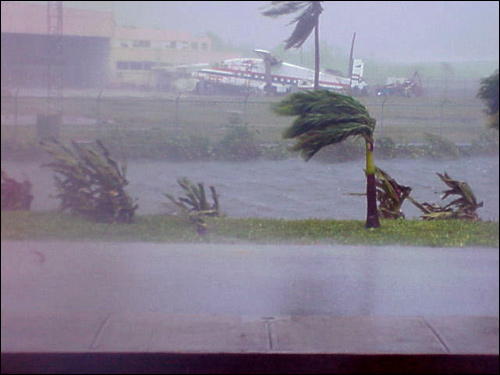 Typhoon Chata`an Makes Landfall on Guam July 5, 2002. This was the scene outside the WFO. By 10 a.m. winds at the WFO peaked at 93 mph and the storm continued to intensify as it moved northwest, away from the Island.